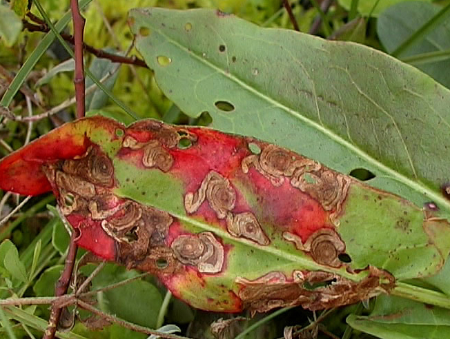 Enteucha acetosae mines, Harlech, North Wales, Sept 2004